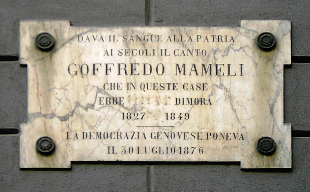 Lapide a Goffredo Mameli a Genova. I took this photograph by myself in 2006.